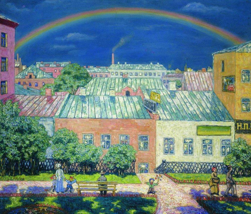 N.P. Krymov Title